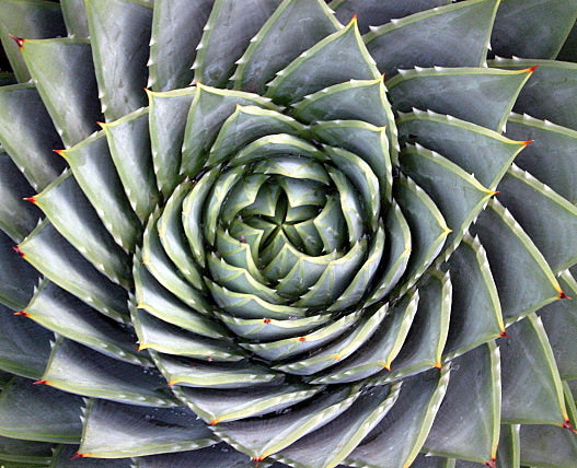 Aloe polyphylla in the San Francisco Botanical Garden (formerly Strybing Arboretum)